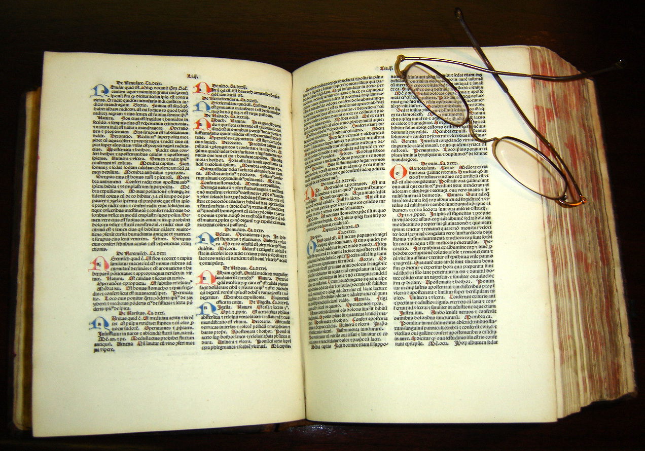 Canons of medicine from Avicenna, latin translation, dated 1484 CE. description from en.wikipedia: "I took this image and allow its free use. I put my eyeglasses there for scale." Book is located at UT Health Science Center's library: "